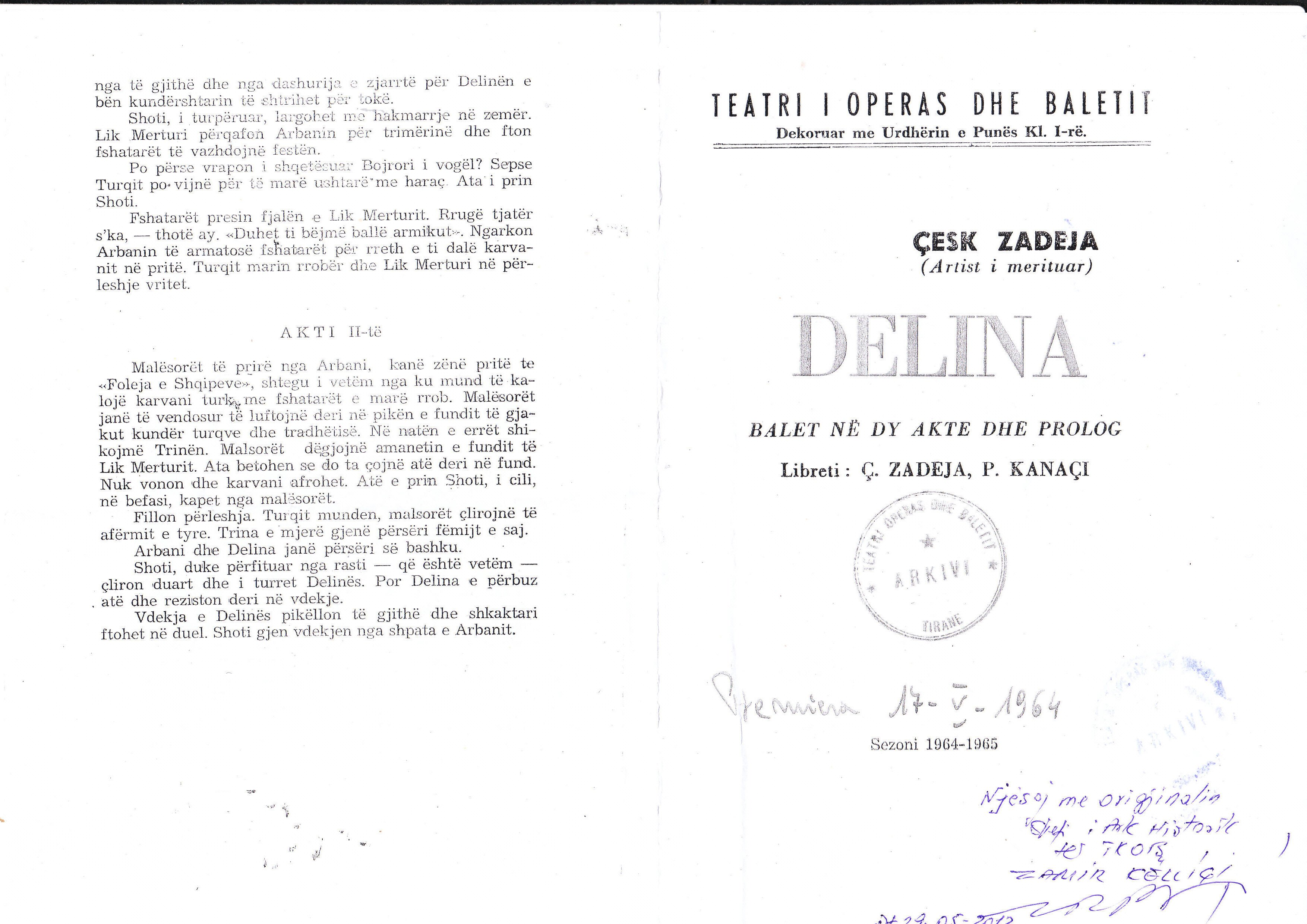 delina